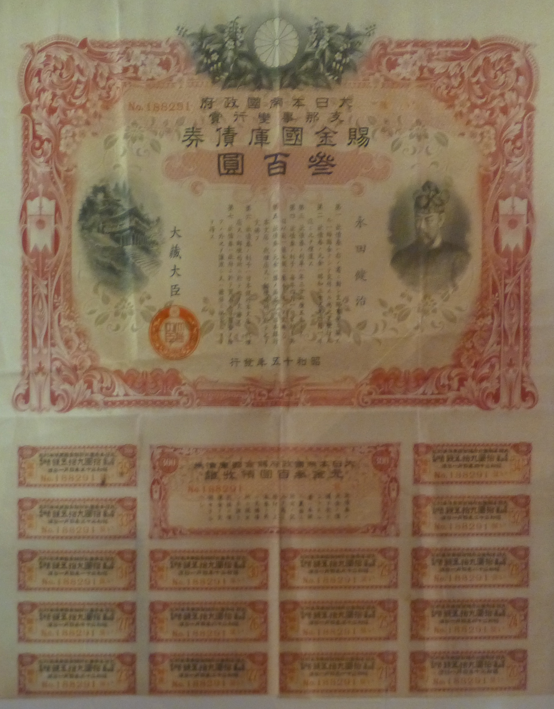 戦時国債 (Japanese war-time bond)